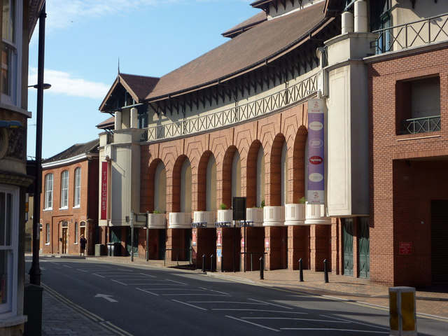 Shopping centre car park The row of grand arches are above the entrance and exit routes for the Buttermarket shopping centre carpark.